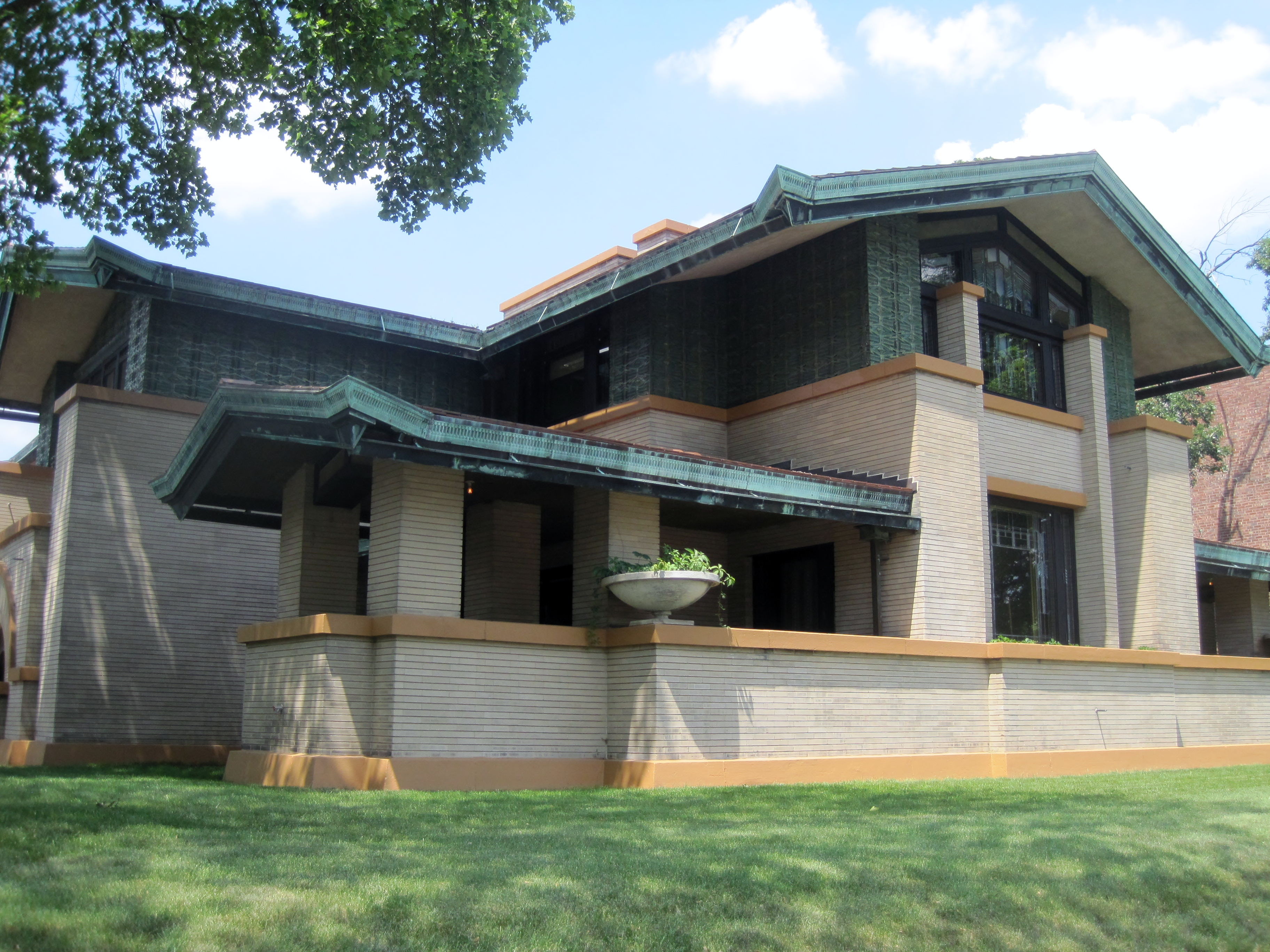 The Susan Lawrence Dana House in Springfield, a national landmark (1904). Susan Lawrence Dana was an heiress who was widowed while she was still young. She decided to become the leading hostess in Springfield, and commissioned Frank Lloyd Wright to build her a house worthy of entertaining. Because of its role as an entertainment building, it has some features that are unusual for a Wright building, including a front door that can be easily found. Charles C. Thomas, an admirer of Wright's, bought the house in 1944 as Dana was in failing health. He maintained most of the house's furnishings, even as he used the building as a printing house. He sold the home the state of Illinois in 1981 for $1 million.